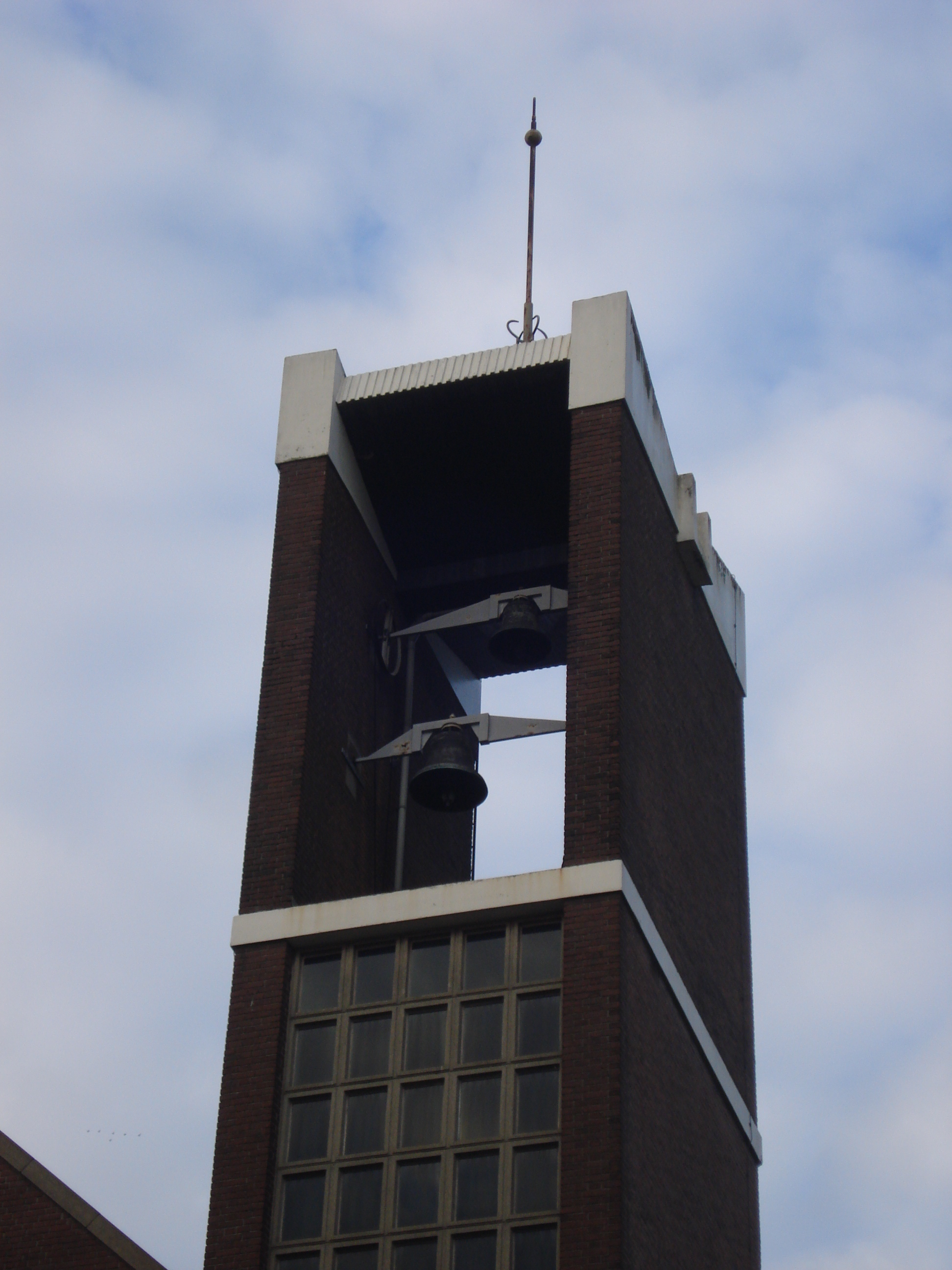 De toren van de Boezemsingelkerk van de Gereformeerde Gemeente in Rotterdam